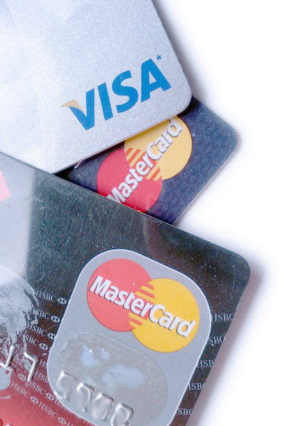 the corners of 3 credit cards